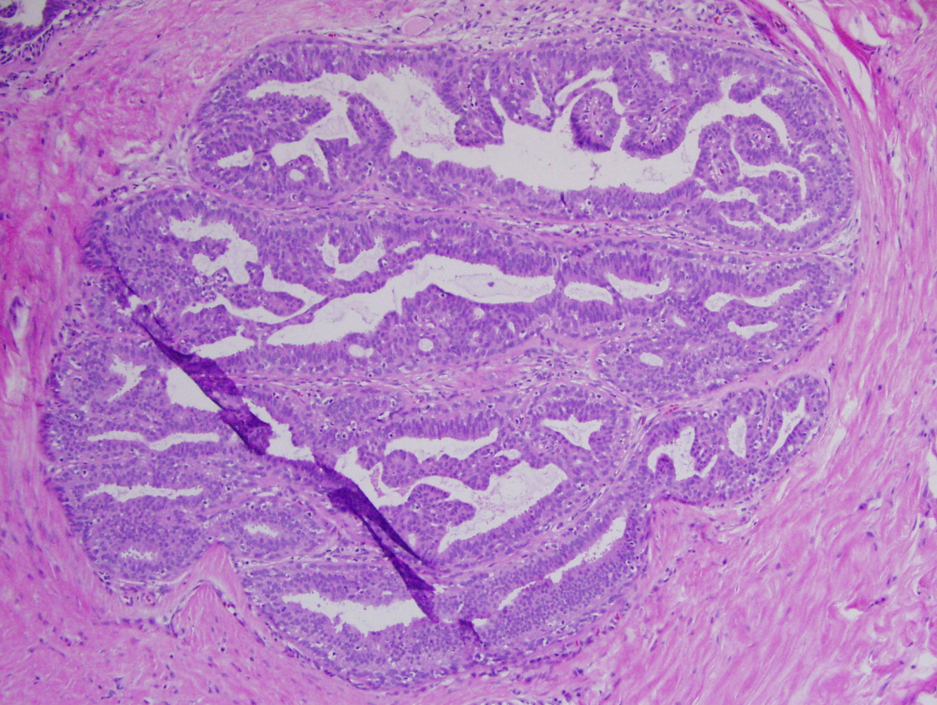 Intraductal papilloma, H&E, 10x